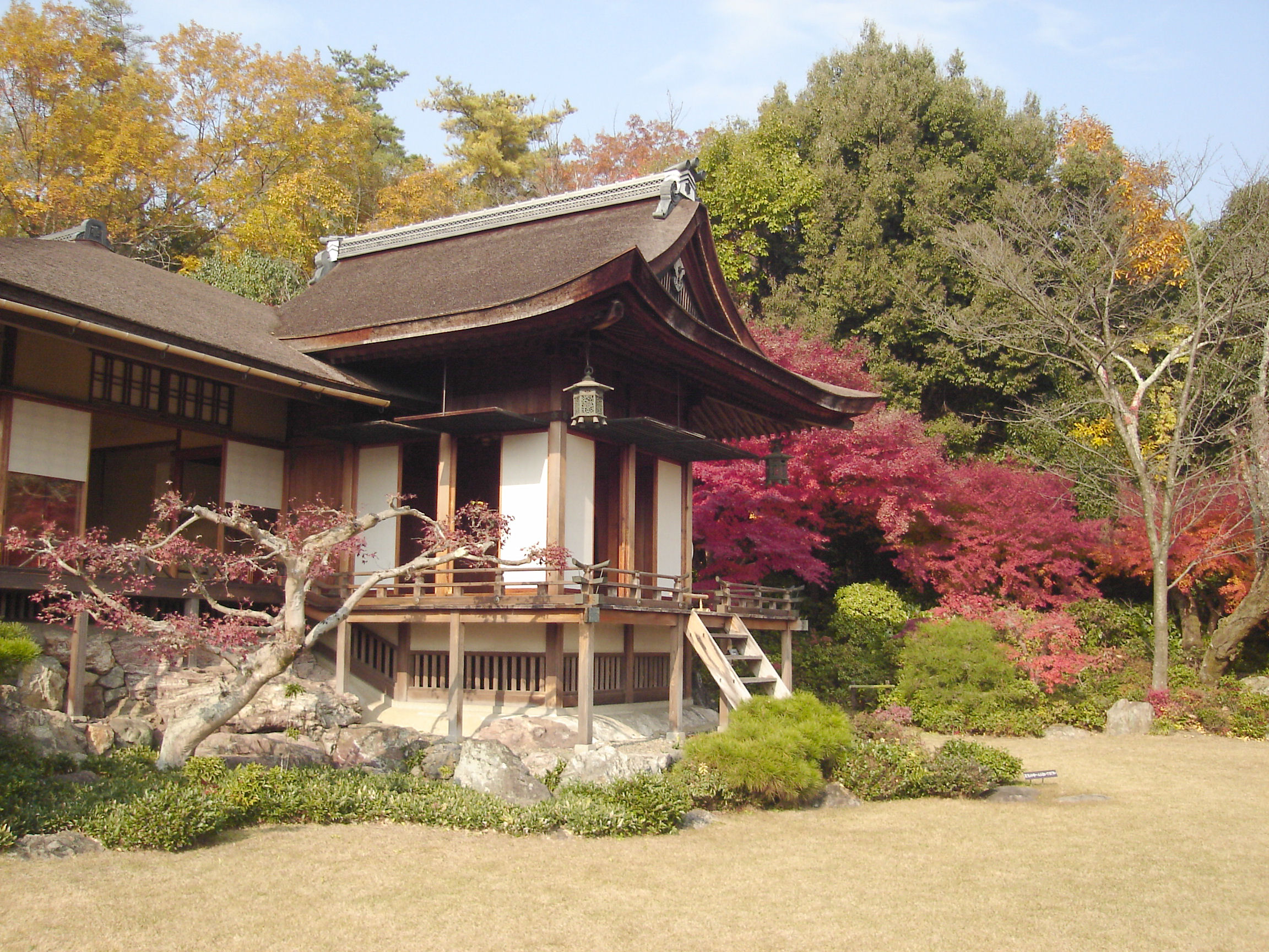 Ohkochi Sanso, Kyoto, Kyoto prefecture, Japan